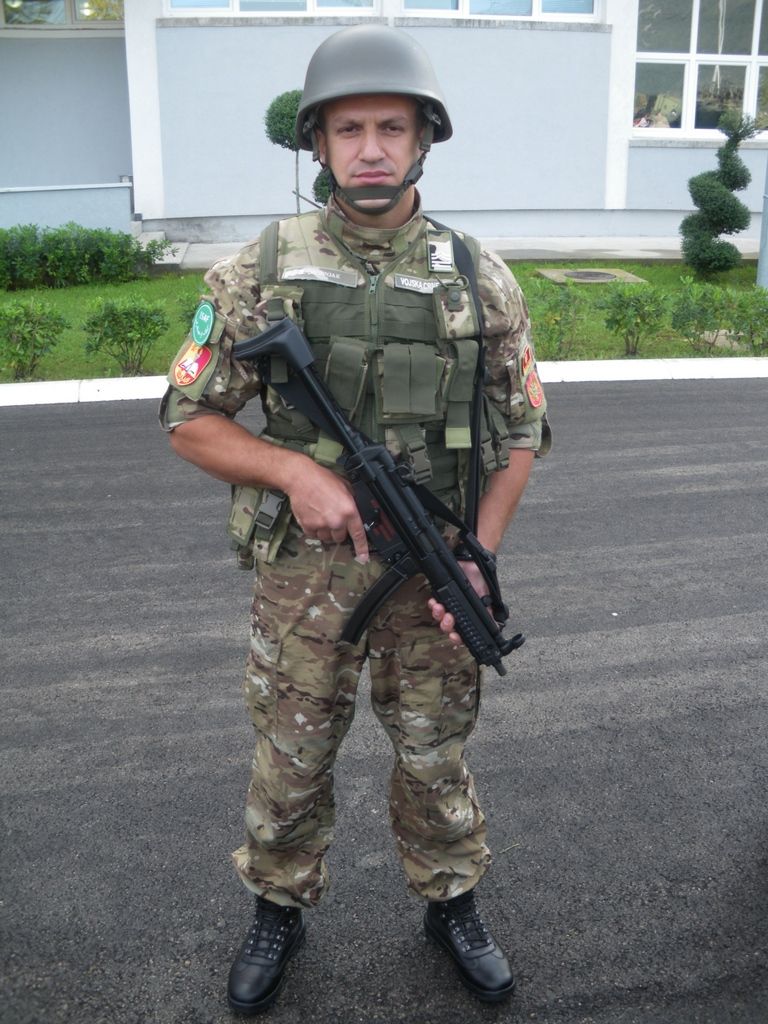 Montenegrin soldier armed with a Heckler & Koch MP5 submachine gun